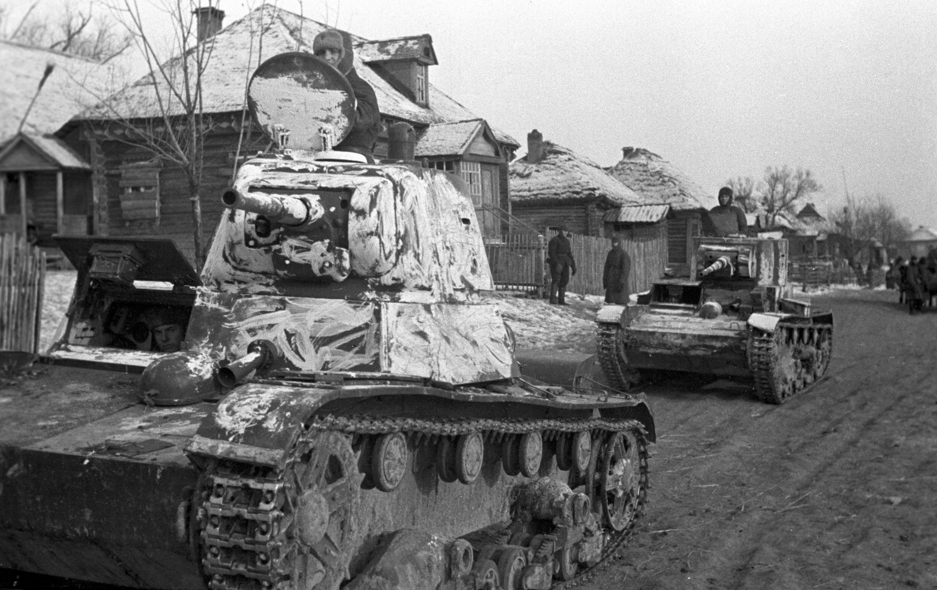 “Tanks in a liberated village”. Soviet tanks passing along a village street. Tankmen looking out of hatches.